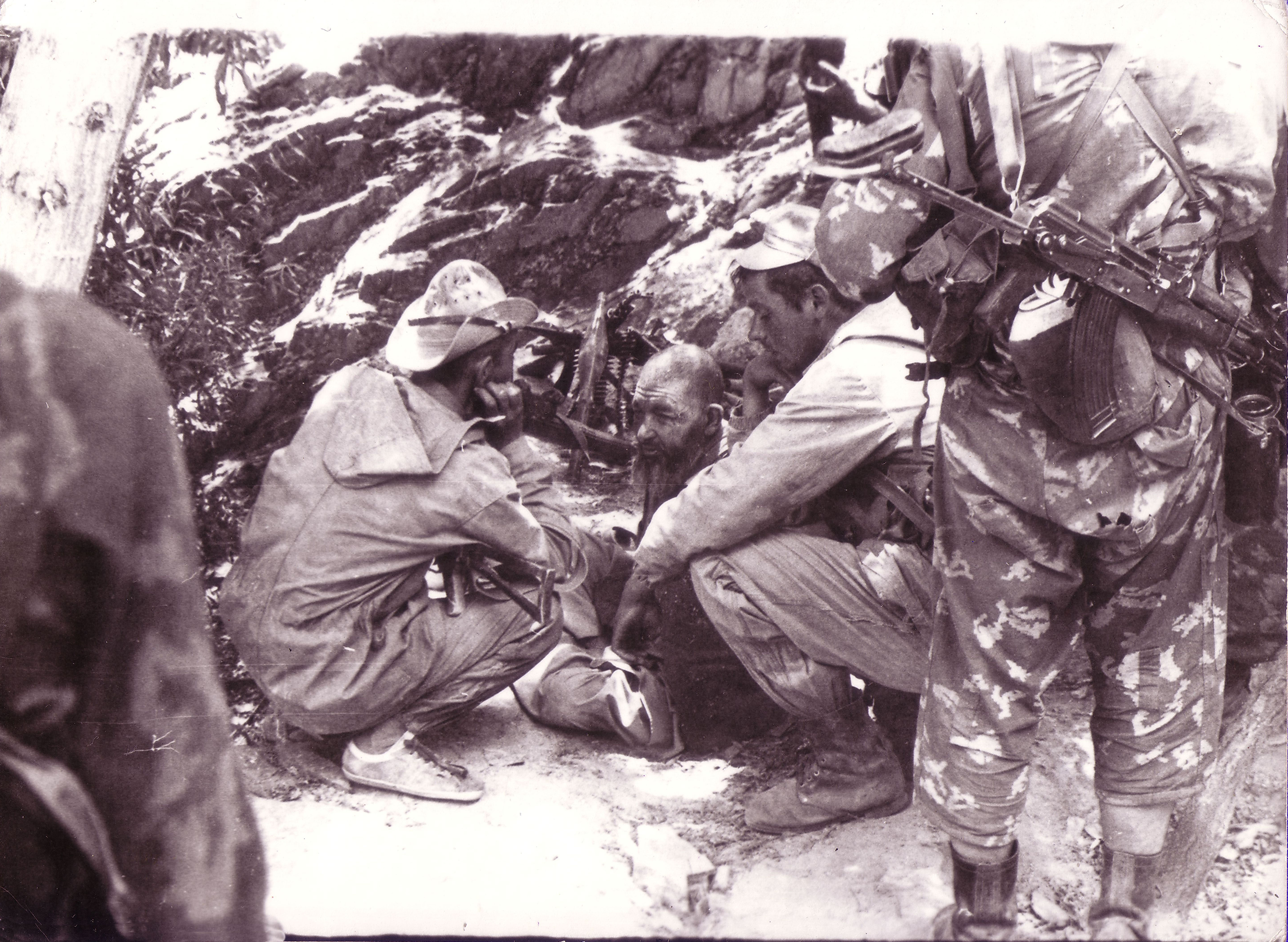 Soviet Army in Afgan, 1987. Russian Airborne Troops unit.